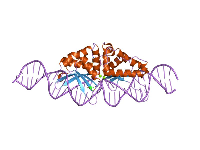 Cartoon representation of the molecular structure of protein registered with 1p8k code.